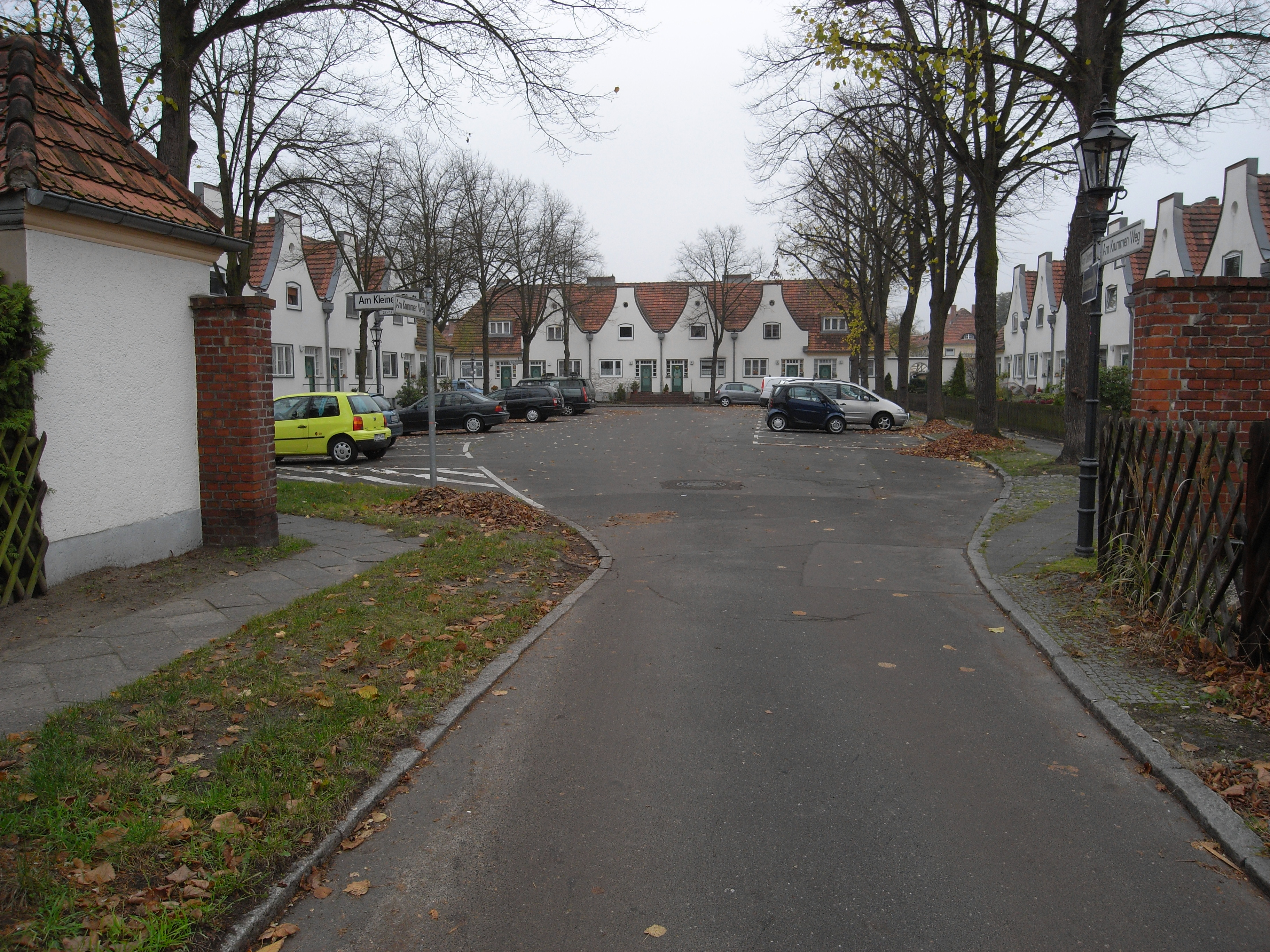 Am Kleinen Platz in the Garden City Staaken (1914-17) near Berlin of the architect Paul Schmitthenner